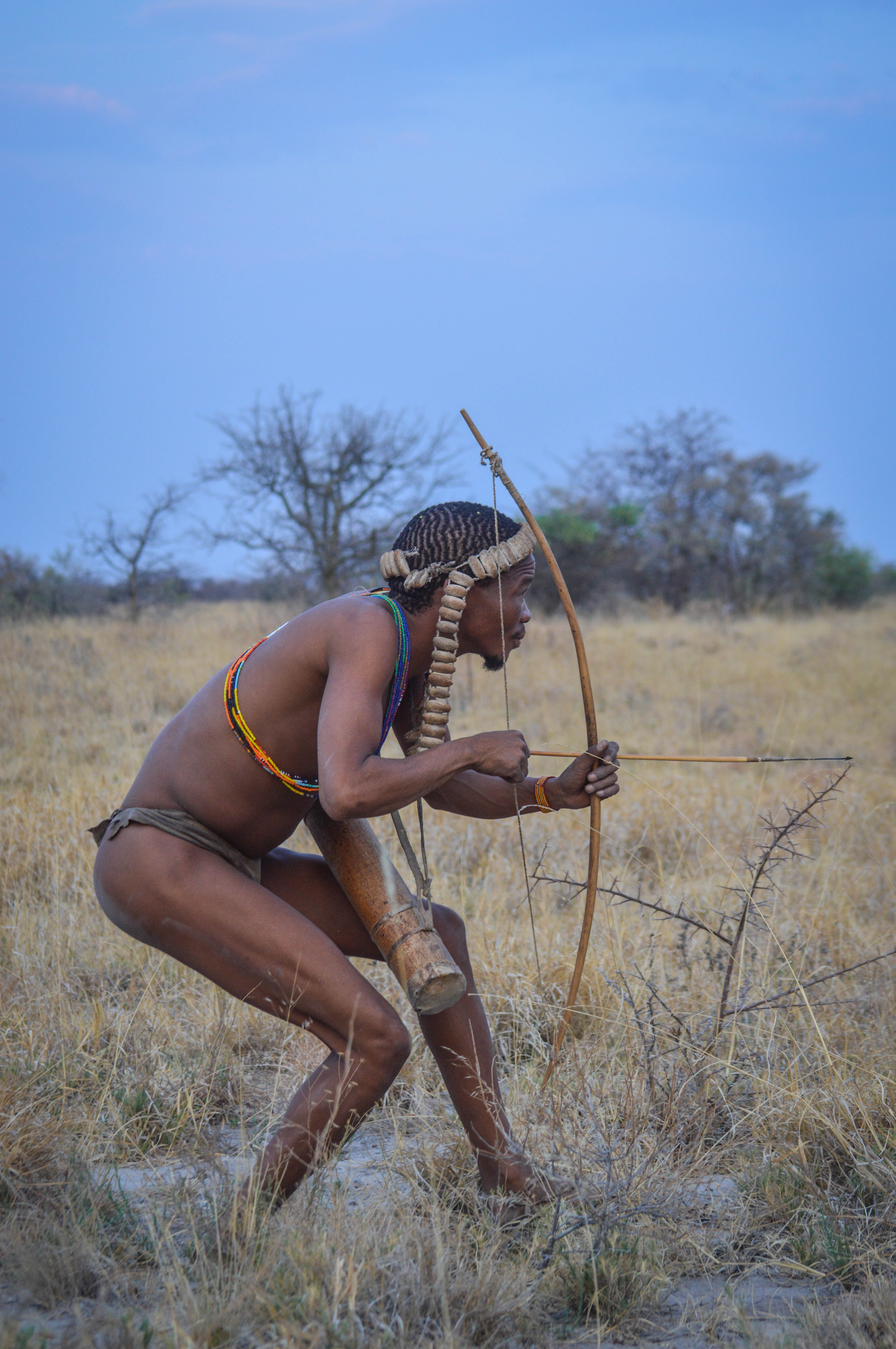 Lifestyle of the Bushmen (Hunting) This is an image of "African people at work" from Botswana